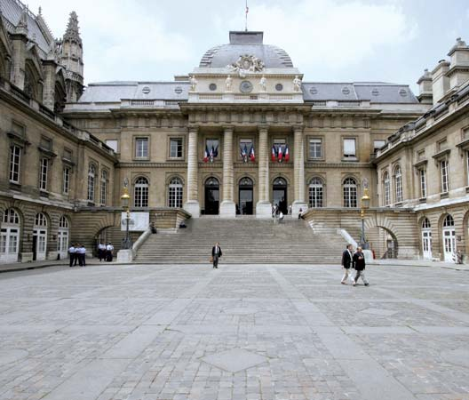 Cour de Cassation is the highest court of France which has supreme jurisdiction when it comes to interpretation of the constitution